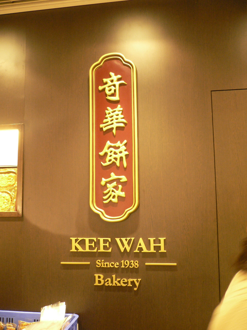 One of the types of logos of Kee Wah Bakery (奇華餅家), stuck on the wall of one of the stores in Hong Kong.